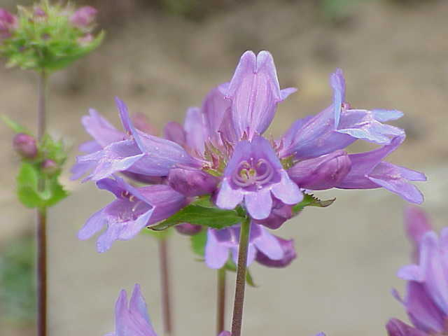 Species: Penstemon serrulatus Family: Plantaginaceae Image No. 1